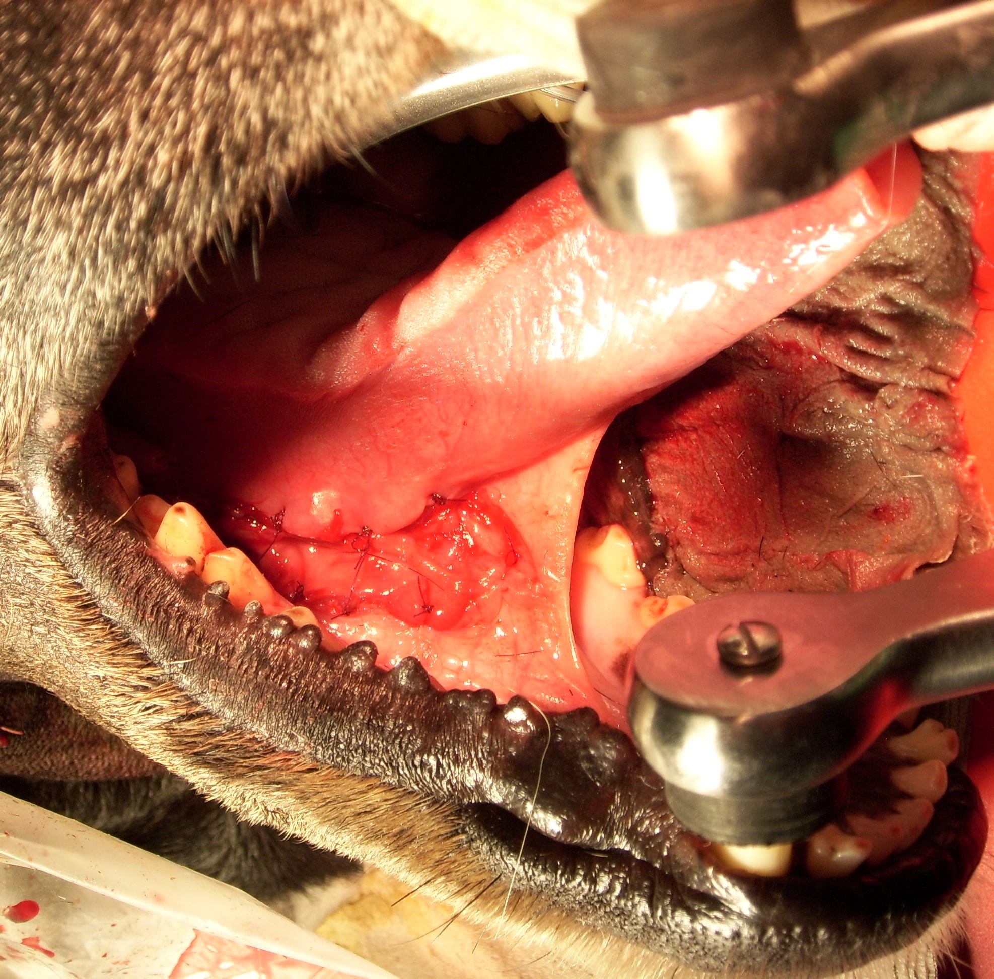 Marsupialisation of a ranula in a dog